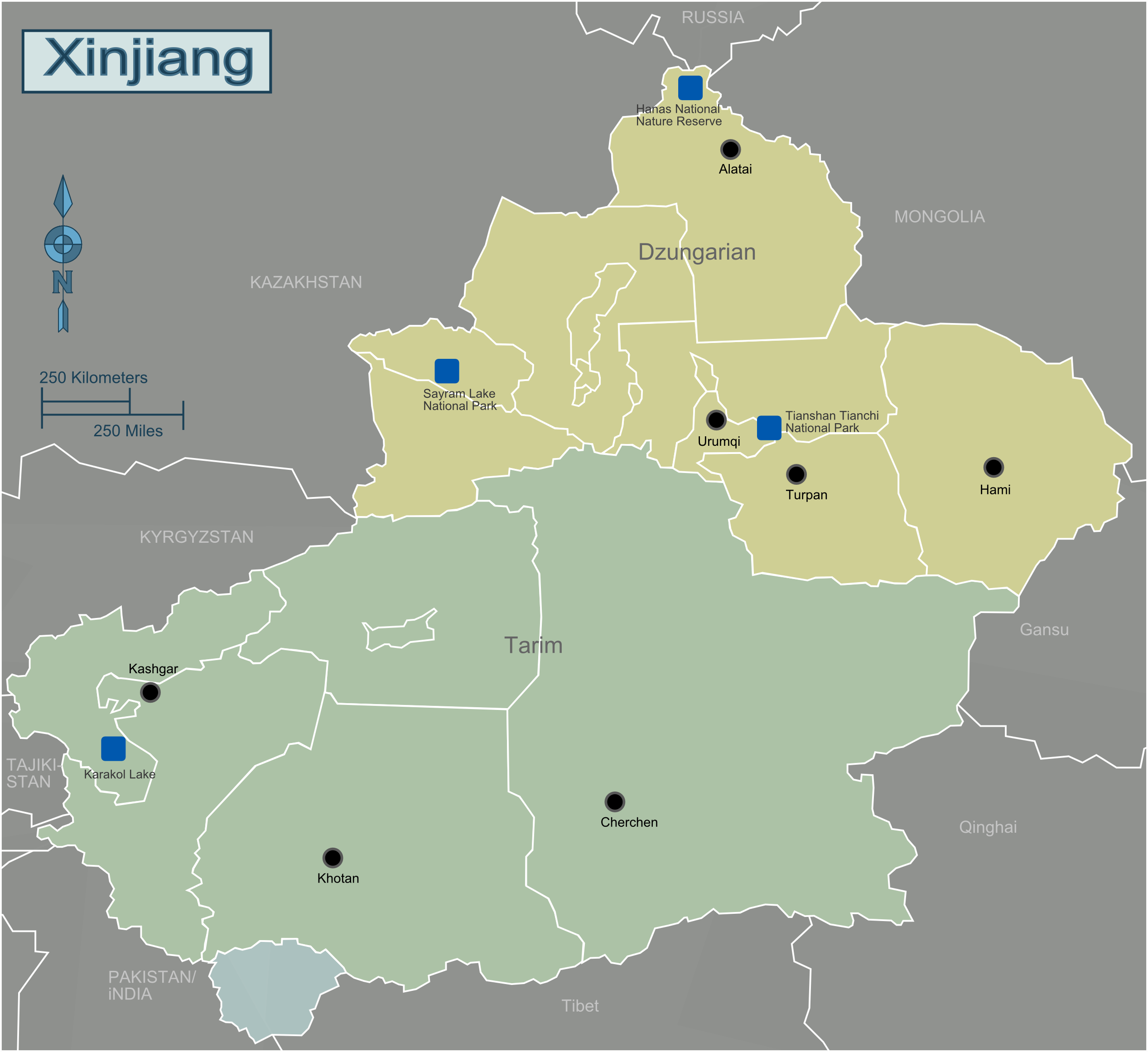 Map of Xinjiang. A map of Xinjiang's regions and major cities, China Map of: China¤.